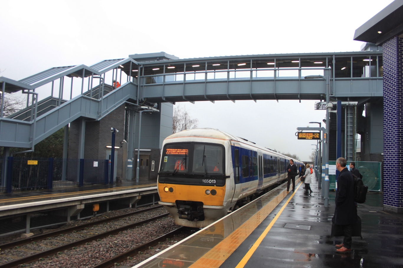 A wet day finds Chiltern Railways' 165013 and 172104 arriving at Bicester Village station with a train from Oxford Parkway to London Marylebone.